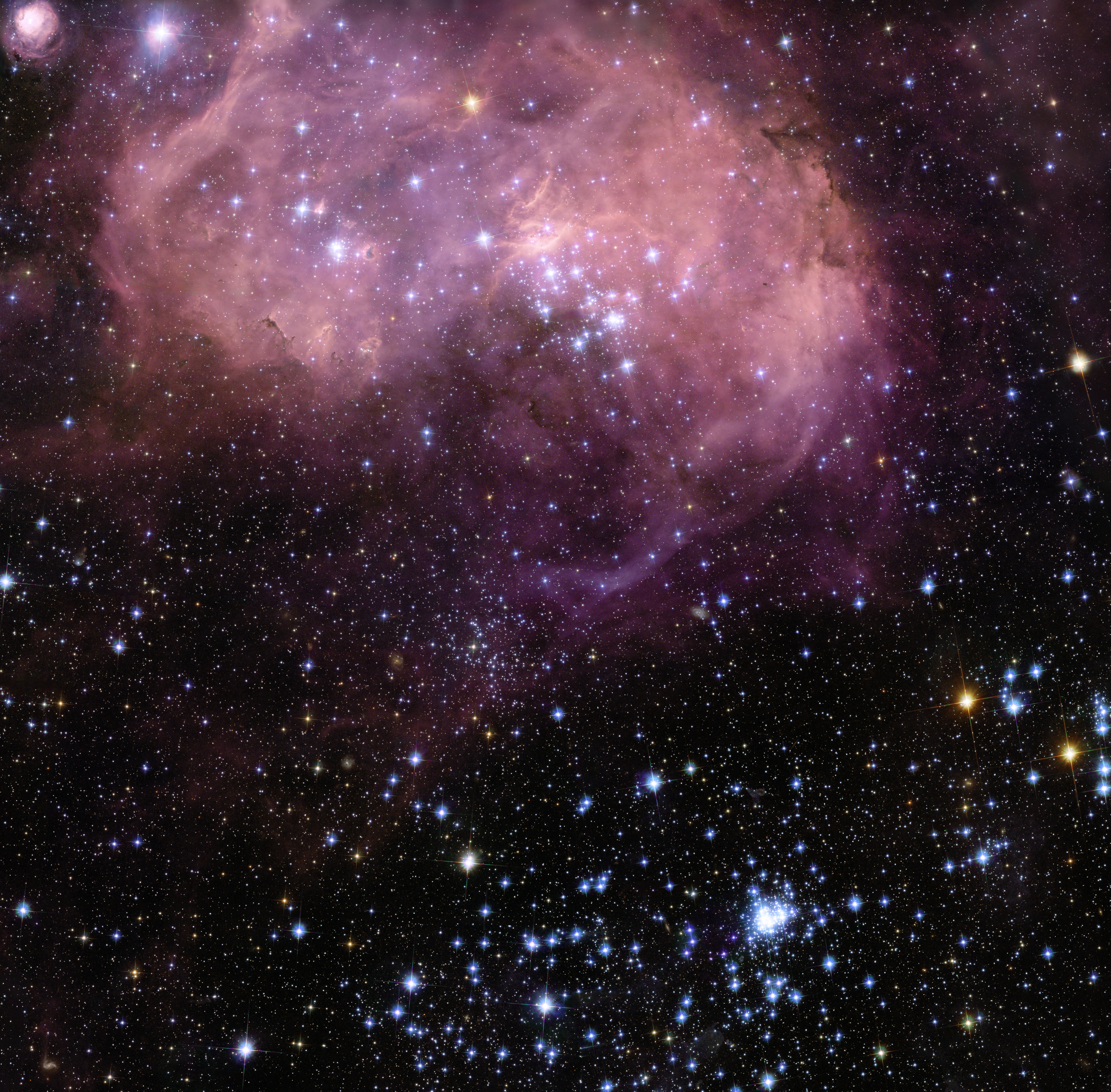 This broad vista of young stars and gas clouds in our neighbouring galaxy, the Large Magellanic Cloud, was captured by the NASA/ESA Hubble Space Telescope’s Advanced Camera for Surveys (ACS). This region is named LHA 120-N 11, informally known as N11, and is one of the most active star formation regions in the nearby Universe. This picture is a mosaic of ACS data from five different positions and covers a region about six arcminutes across.